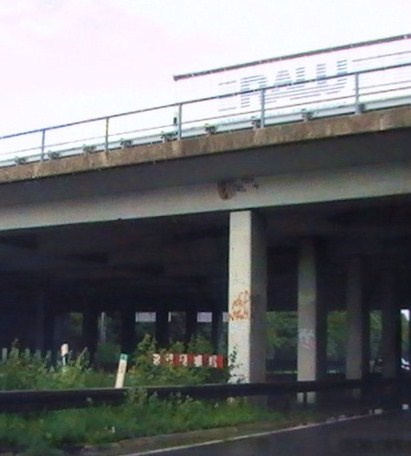 Autobahnkreuz Aachen before its restructuration